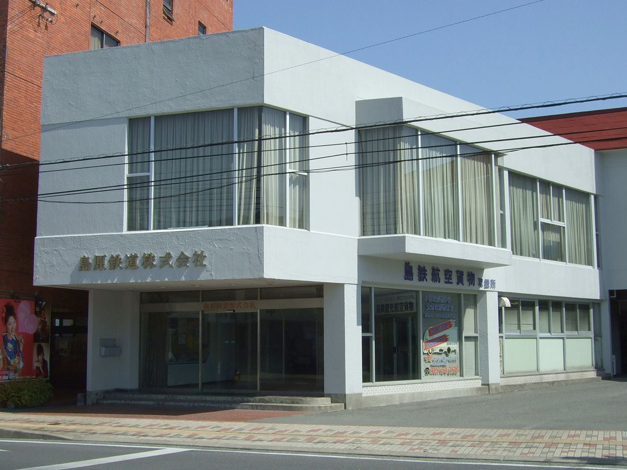 Shimabara Railway head office(Bentenmachi, Shimabara City, Nagasaki, Japan)